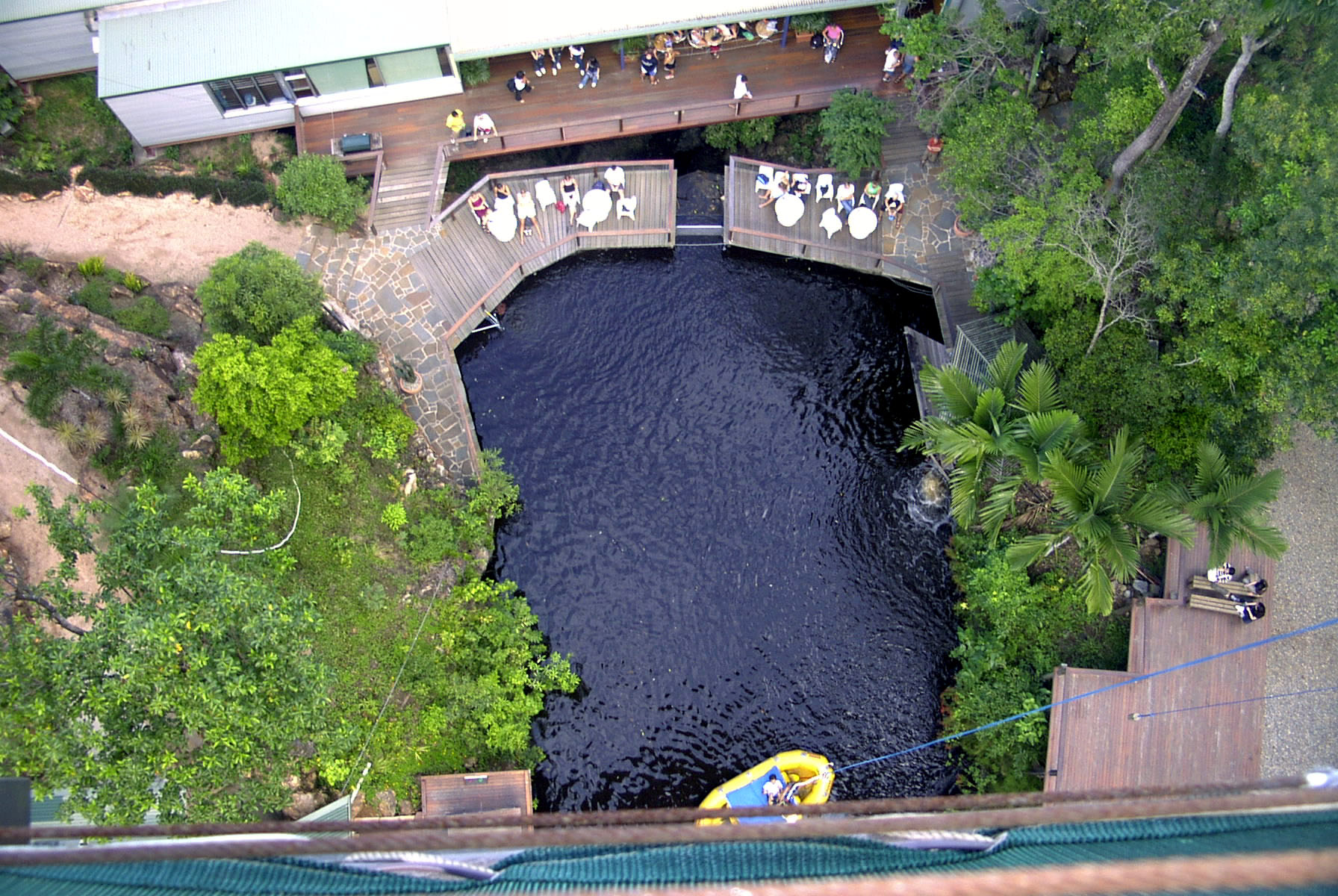 View from the top of the AJ Hackett Bungee Tower, Cairns, Queensland